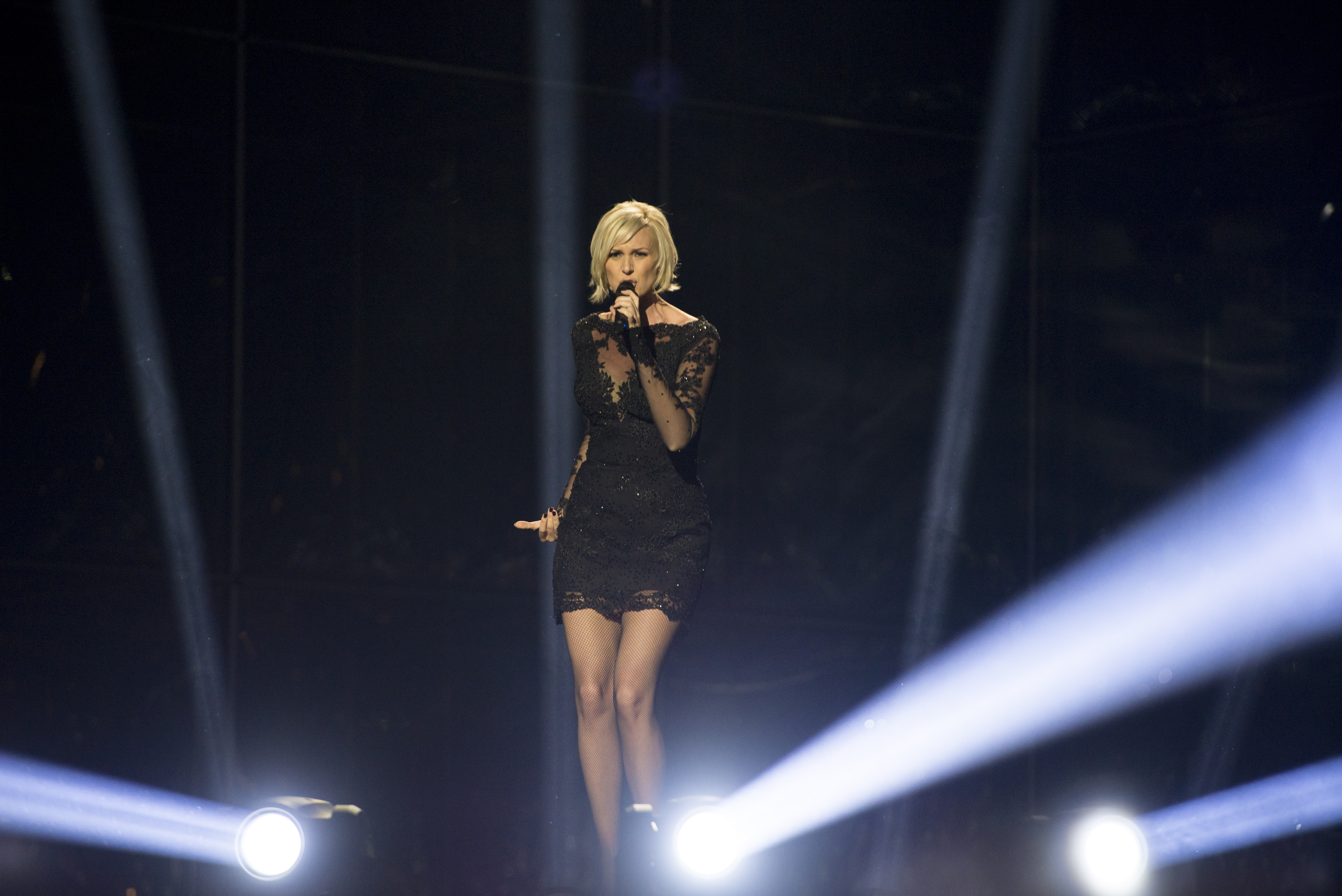 Sanna Nielsen representing Sweden with the song "Undo" during the first dress rehearsal of the first semi final of the Eurovision Song Contest 2014 Copenhagen. (Help translate this text)